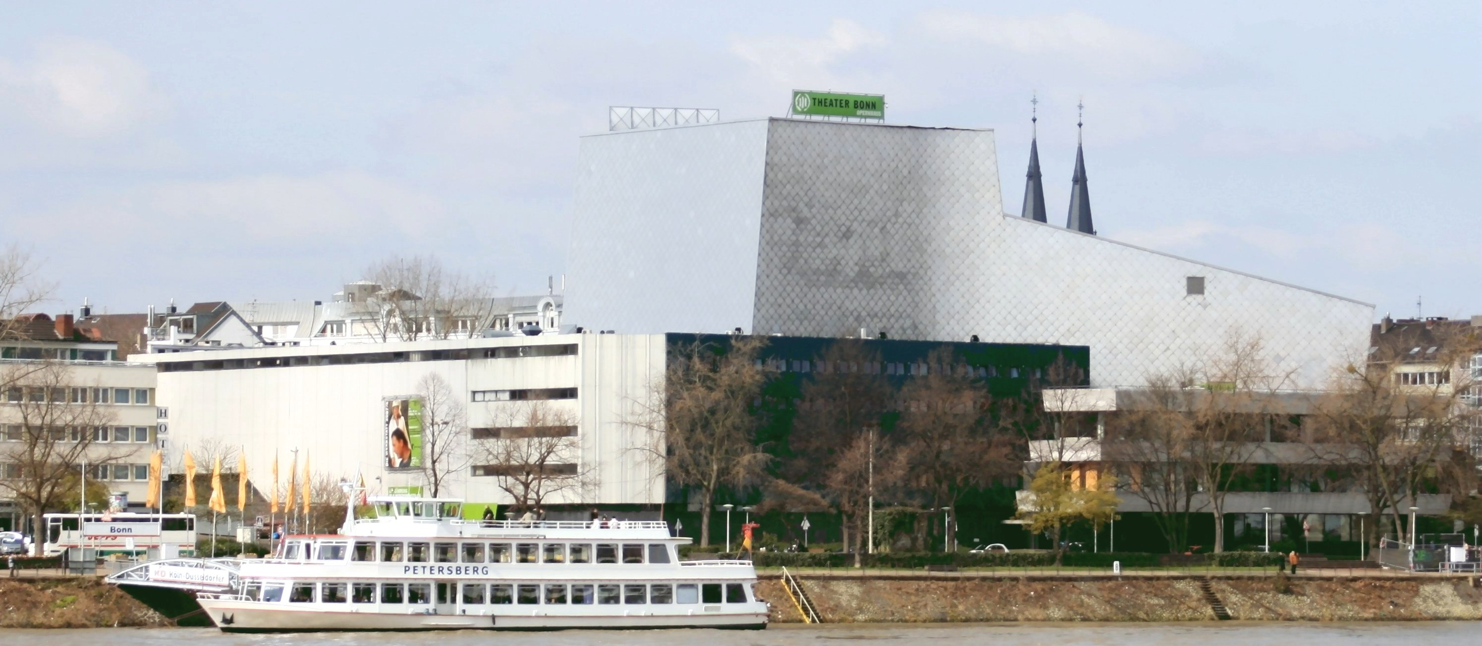 Bonn Opera (taken from the Rhine riverside)